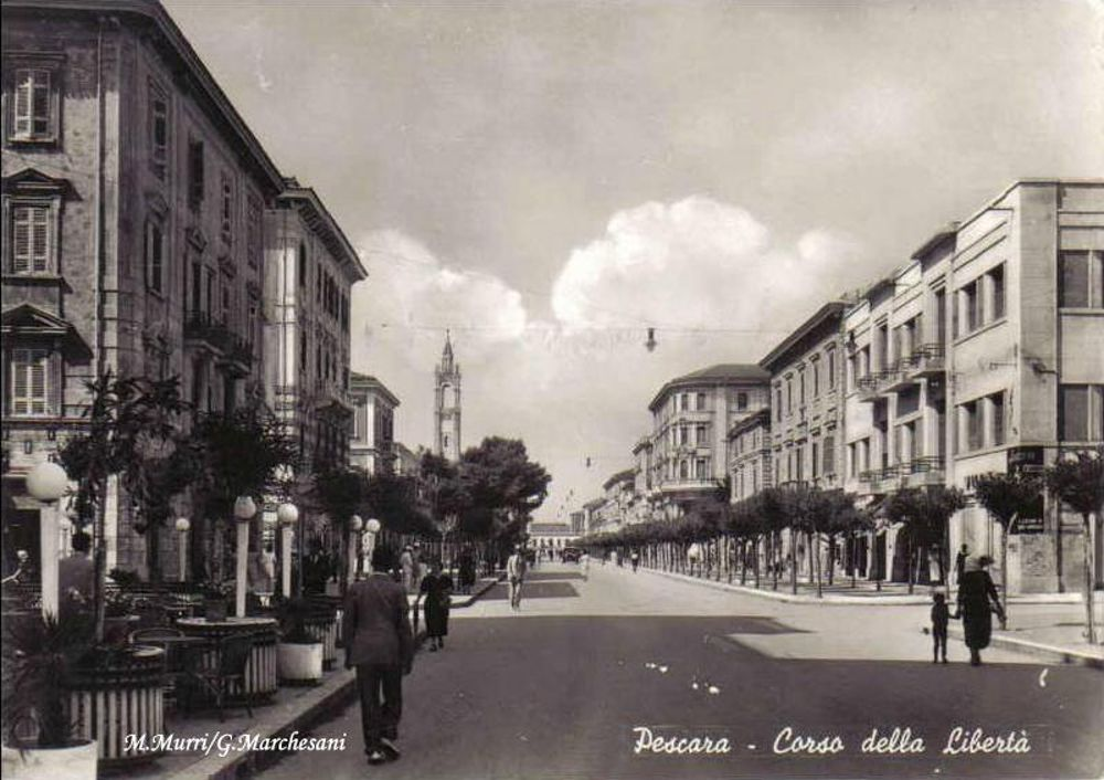 corso liberta